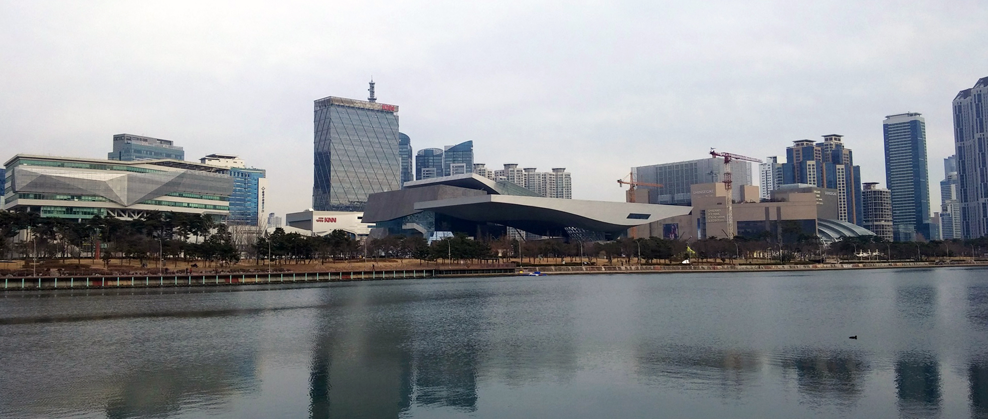 South Korea, Busan: Centum City, from the right river bank of the Suyeong river.